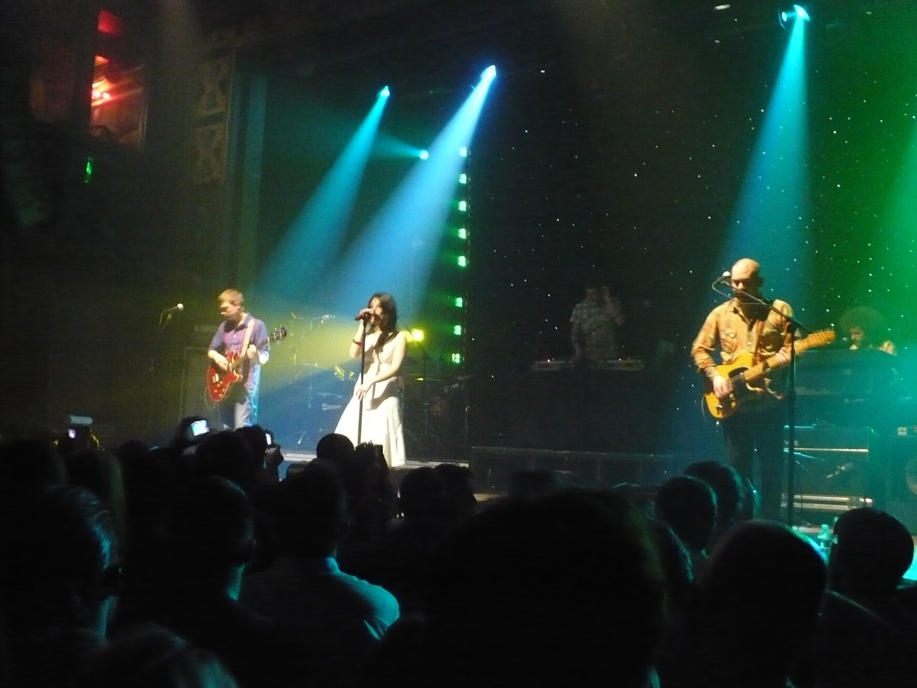 Morcheeba live at Webster Hall. March 26, 2008